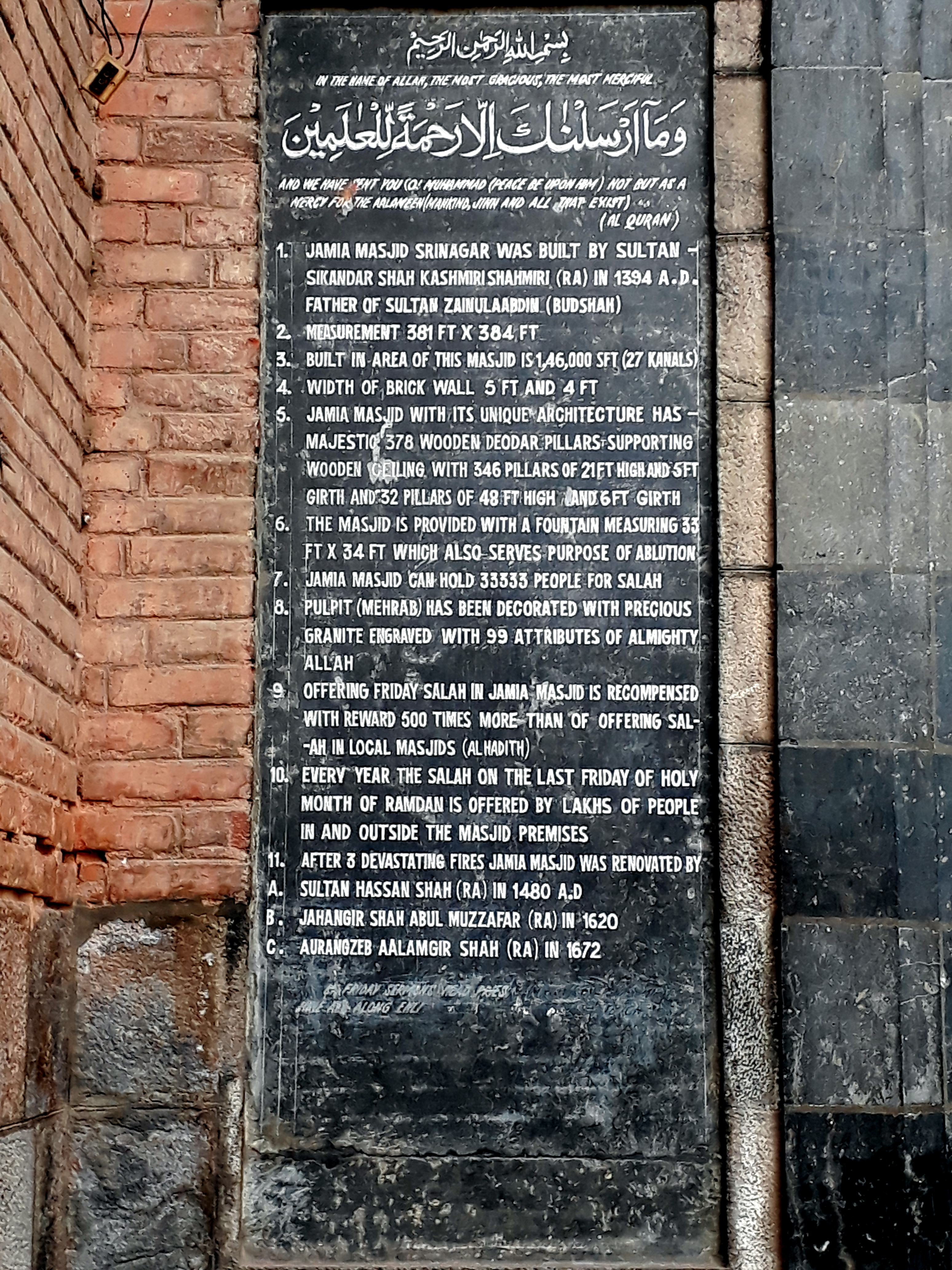 The plaque is erected on one of the main entrances of the mosque which is an authentic source about the information of the Mosque.